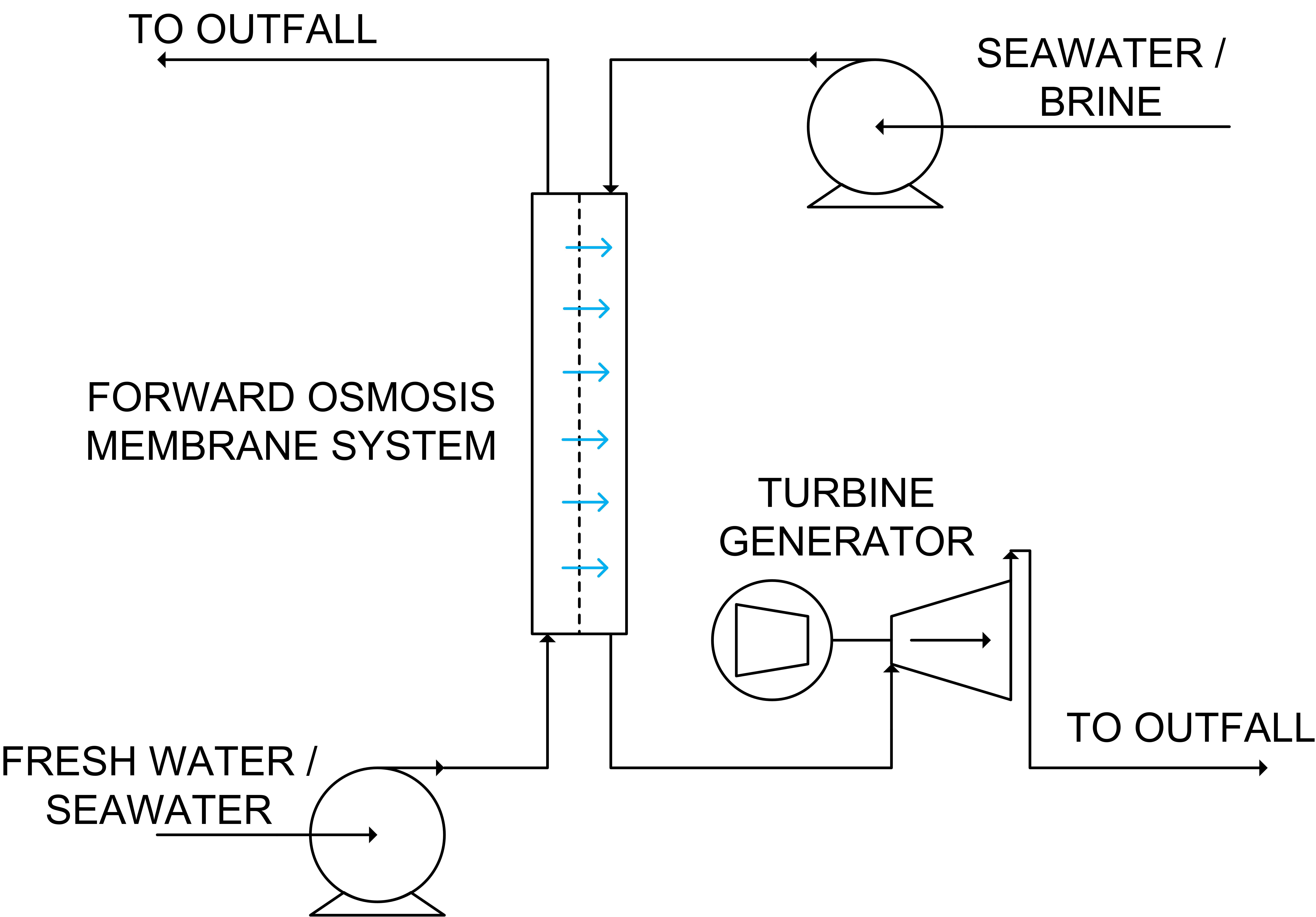 Simplistic pressure retarded osmosis power generation diagram